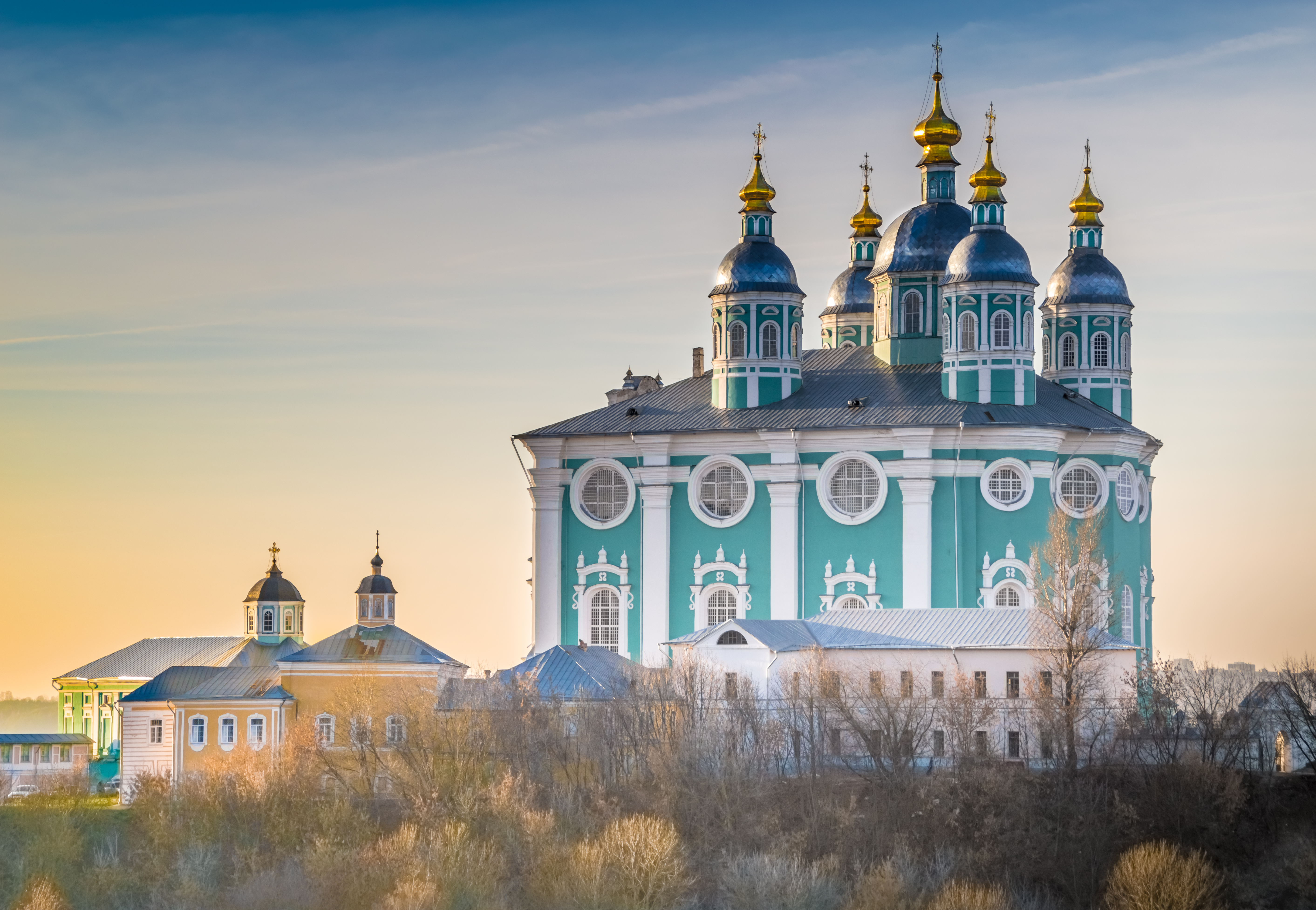 Assumption Cathedral in Smolensk